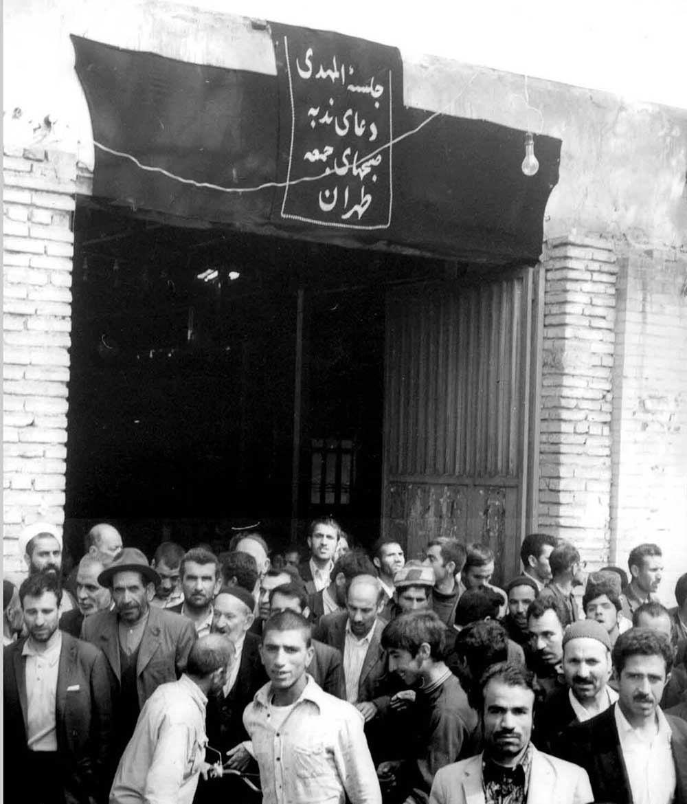 Mahdieh of Tehran - 1961